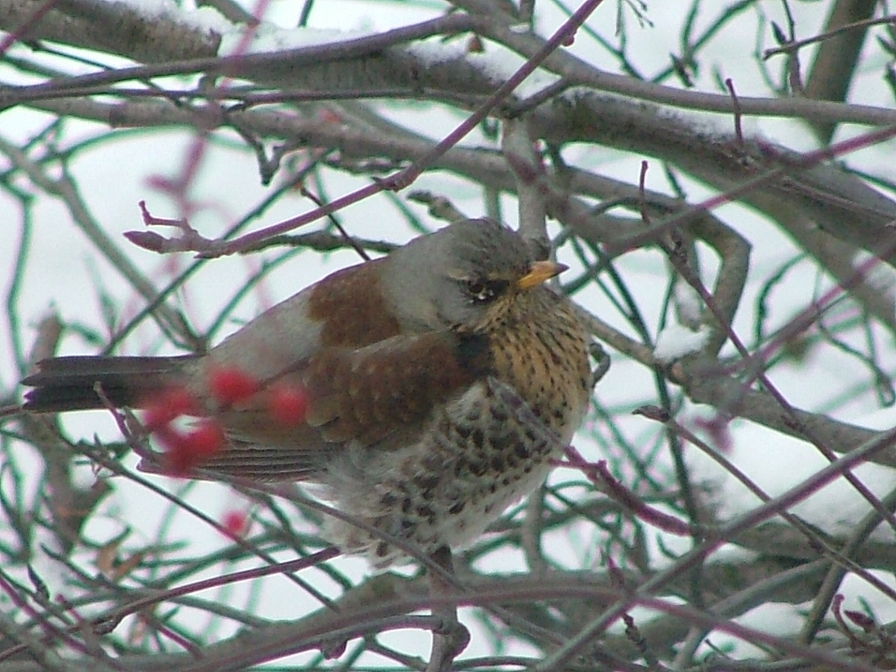 Fieldfare (Turdus pilaris). (Gdansk/Poland)